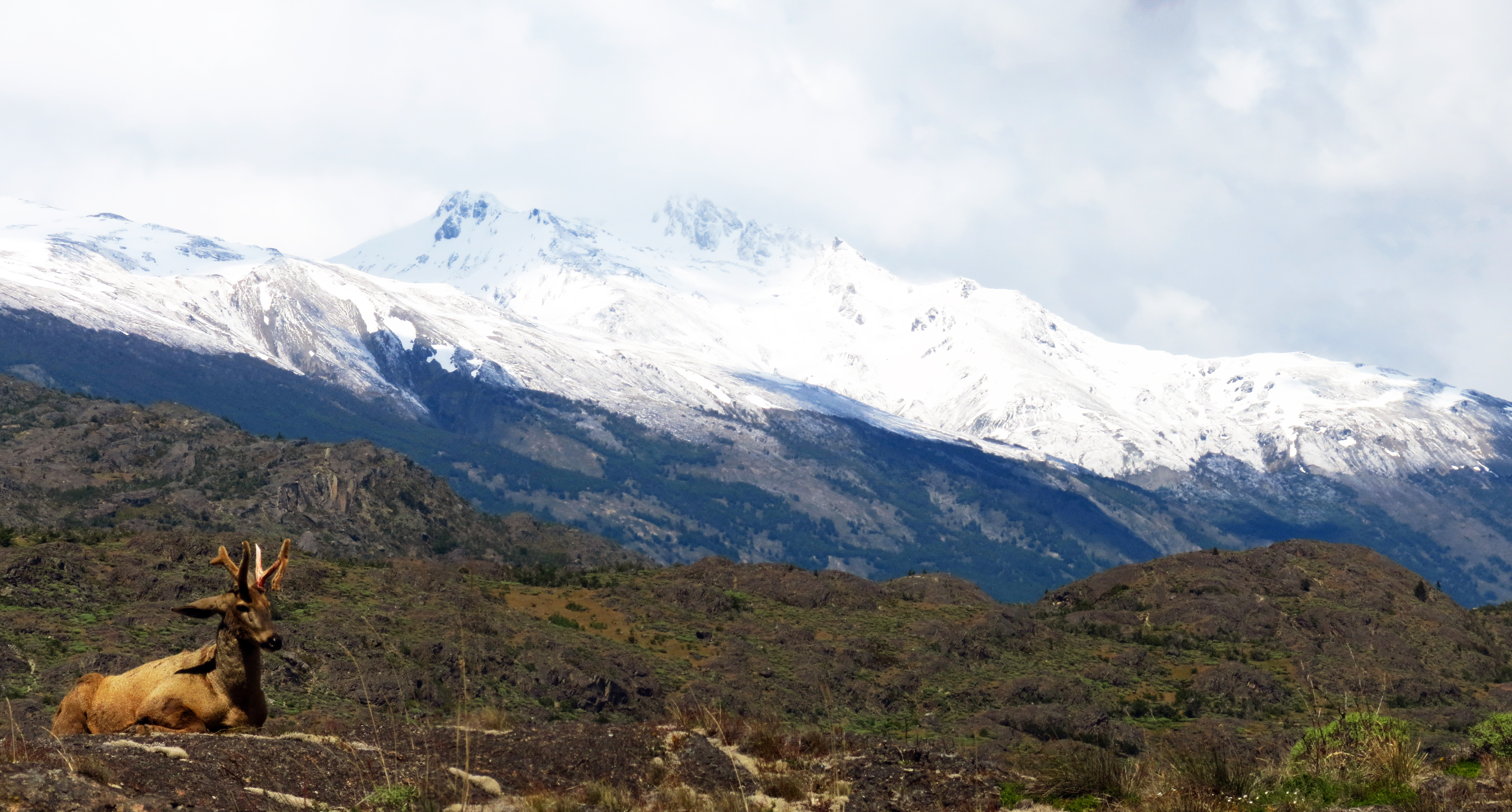 A male south Andean deer (Hippocamelus bisulcus) in Tamango Natioanl Reserve, Chile